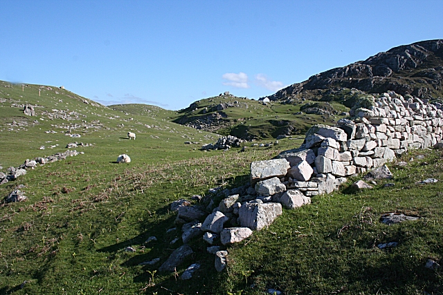 Ceannabeinne One house survives here, but there are plenty of ruinous walls to indicate where further houses once stood.